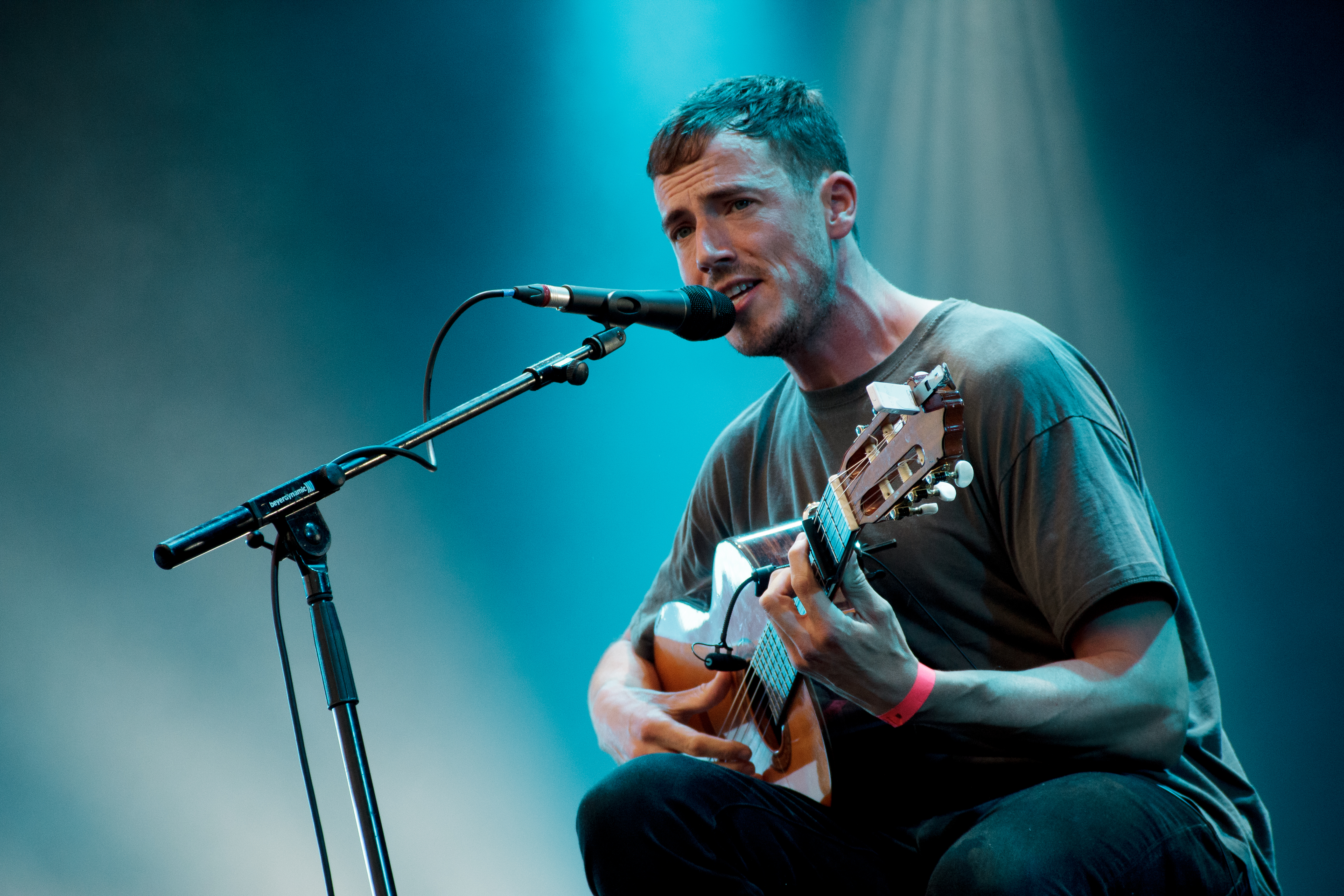 Charlie Cunningham on the Mainstage at Haldern Pop Festival 2019.